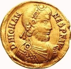 Johannes, AV Solidus, Ravenna mint. DN IOHANNES PFAVG, rosette-diademed, draped, cuirassed bust right. RIC 1901; Depeyrot 12/1.